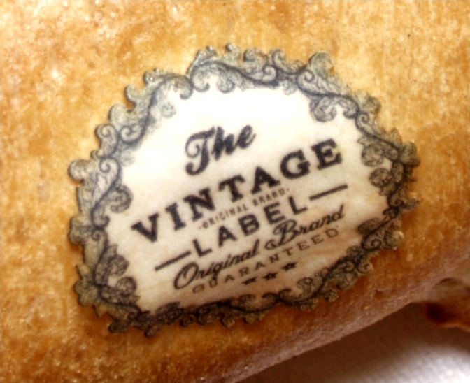 Edible vintage bread label